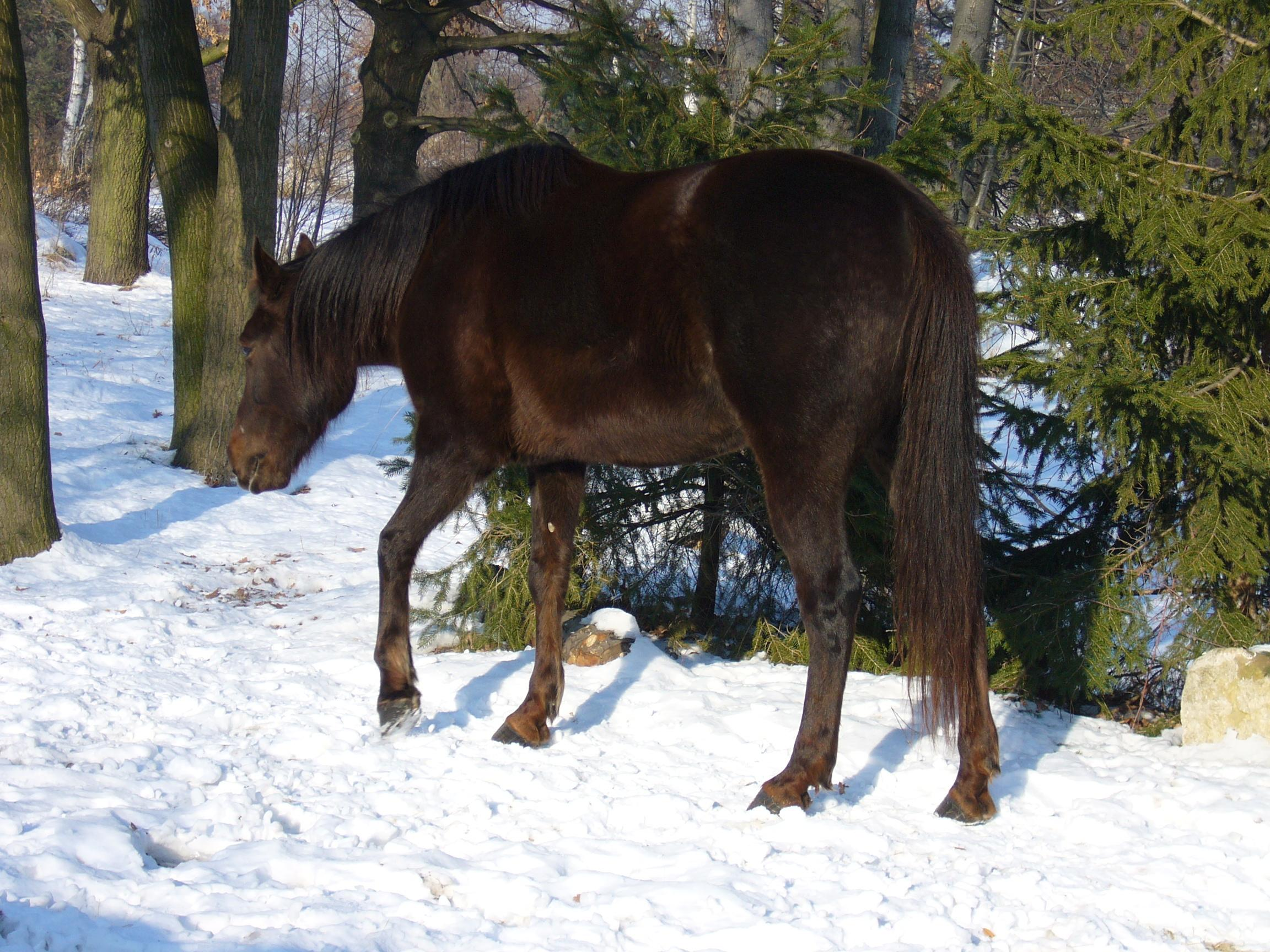 A liver chestnut coloured horse